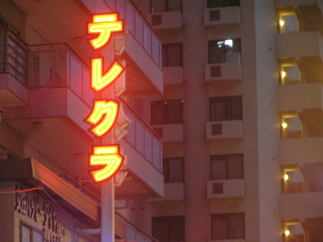 Telephone club in residential quarter along trunk road of Osaka 大阪の幹線道路沿いの住宅地にあるテレクラ